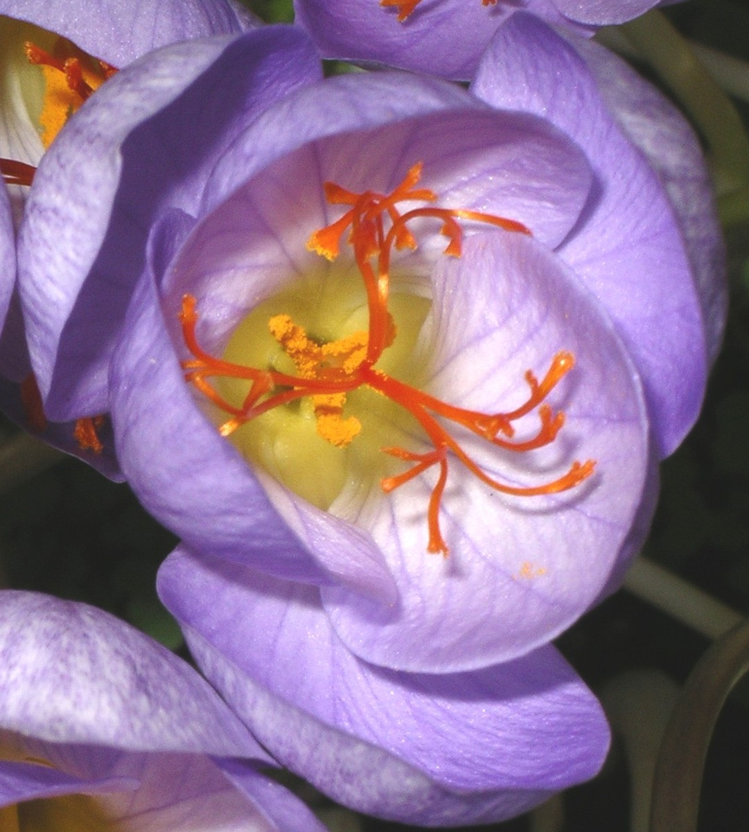 This is a cropped and brightness-, contrast-, and gamma-corrected version of File:Safrron stigmas of Crocus speciosus.jpg I guess it is Crocus speciosus. --Réginald alias Meneerke bloem (To reply) 15:22, 6 October 2010 (UTC)